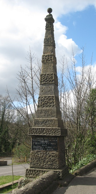 Milepost, constructed in 1829, on the side of the A65 near the site of Kirkstall Forge.